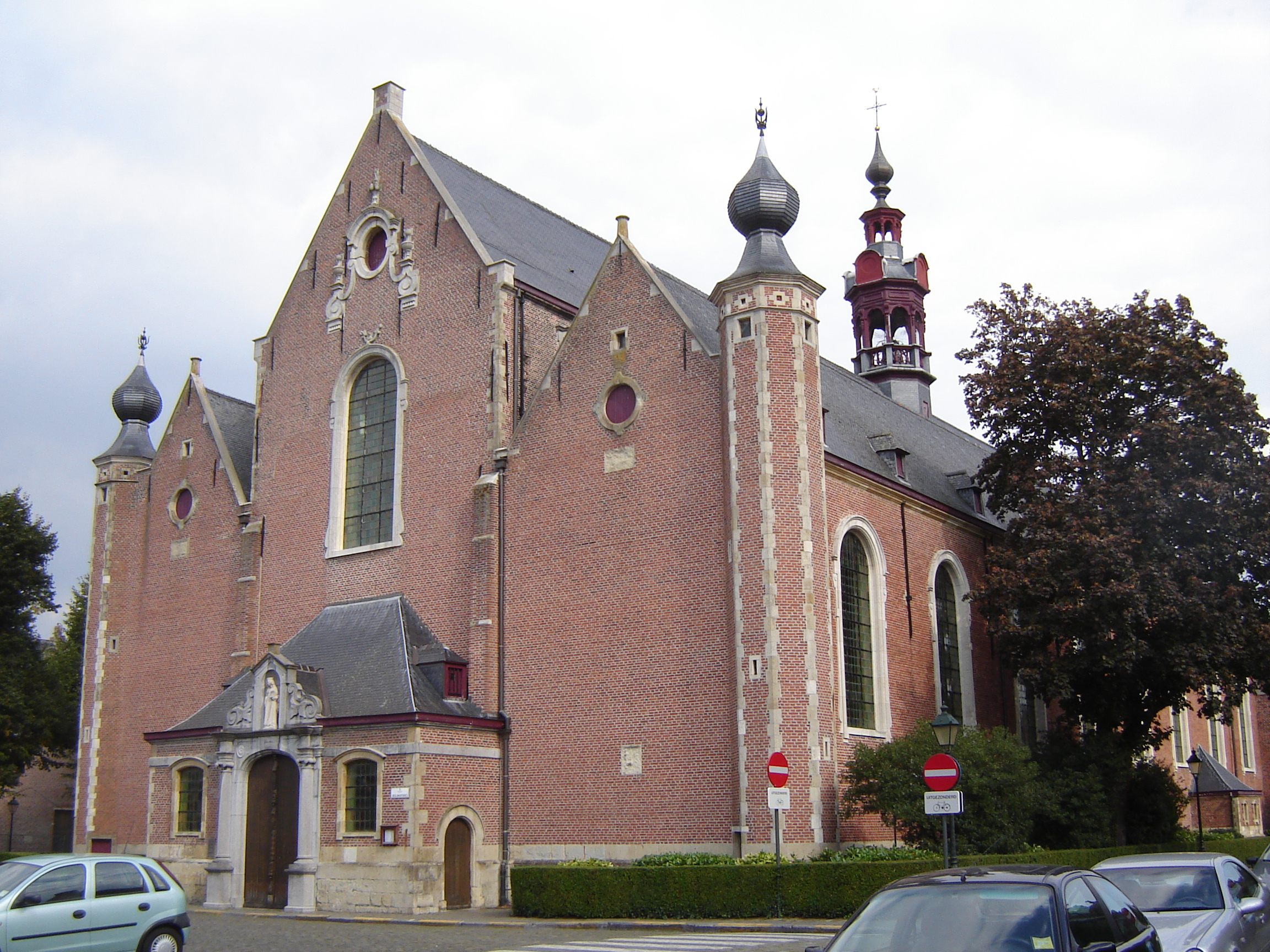 Church of Saint Elisabeth in Gent. Gent, East Flanders, Belgium.